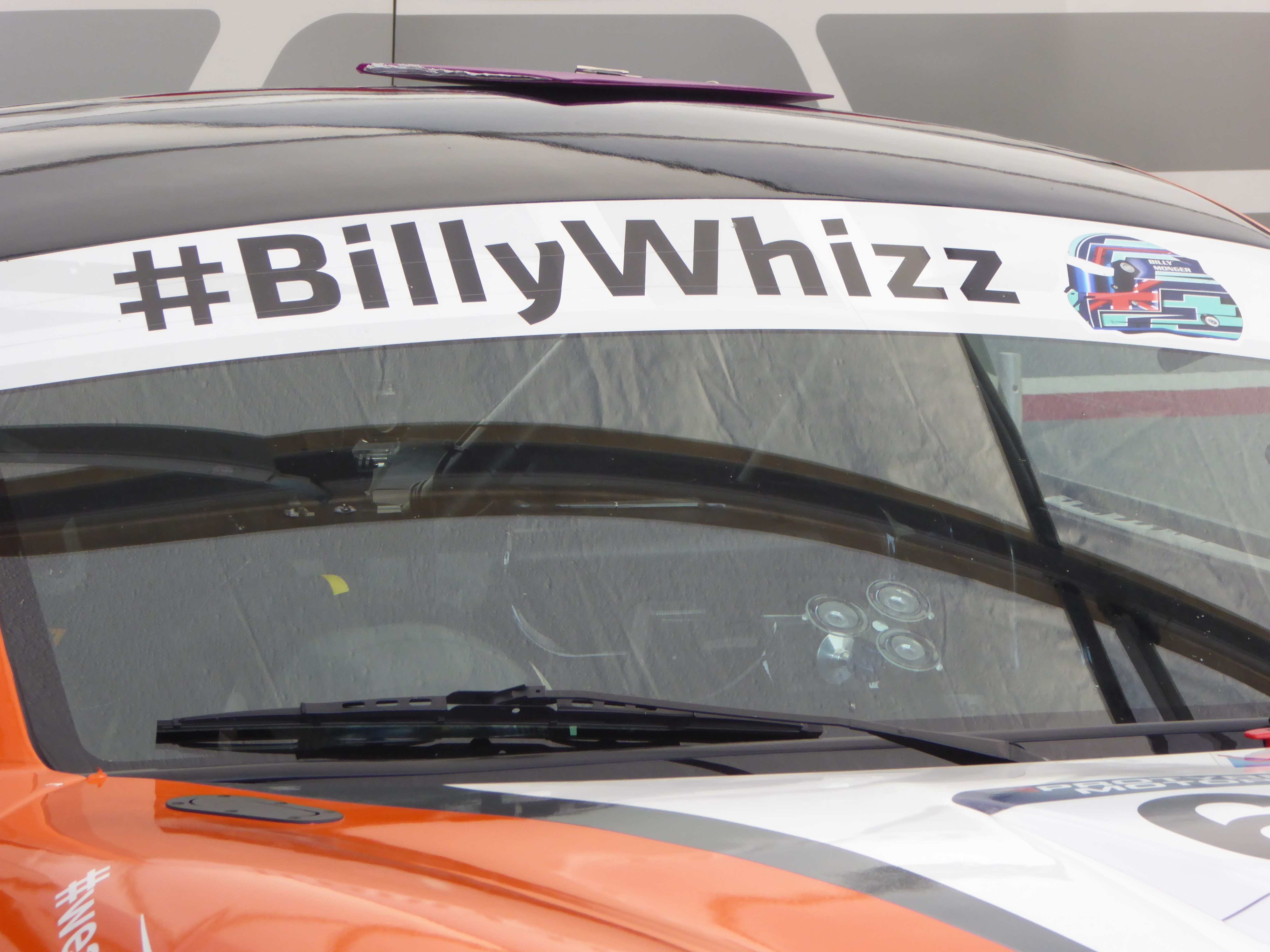 Geri Nicosia's car, at the Knockhill round of the 2017 Ginetta GT5 Challenge. The #BillyWhizz windscreen visor sticker was in support of Billy Monger, who lost the lower part of both his legs after a crash in a British F4 Championship race at Donington Park earlier in the season.